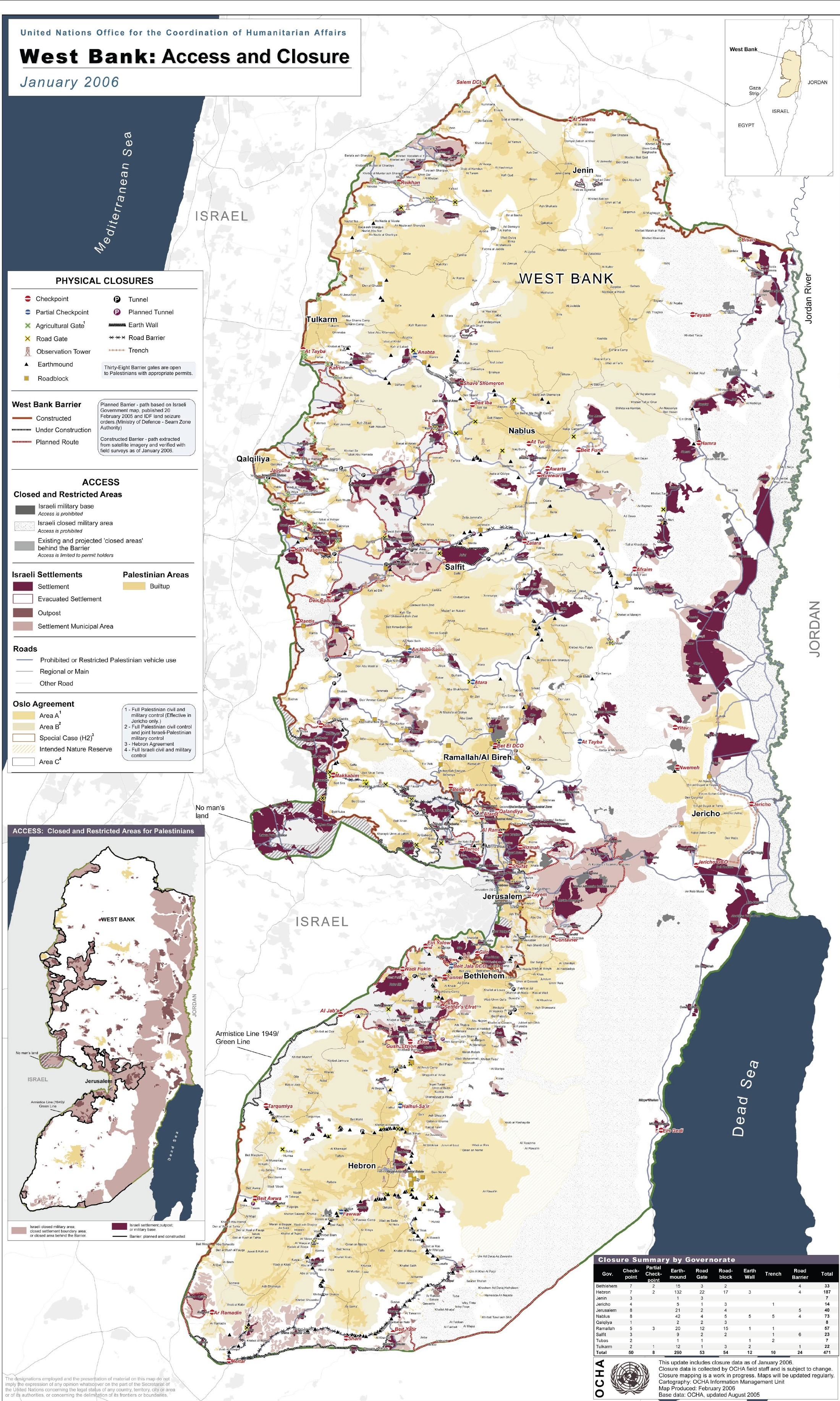 Detailed map of Israeli settlements on the West Bank, January 2006. Produced by the United Nations Office for the Coordination of Humanitarian Affairs - public UN source. Map Centre